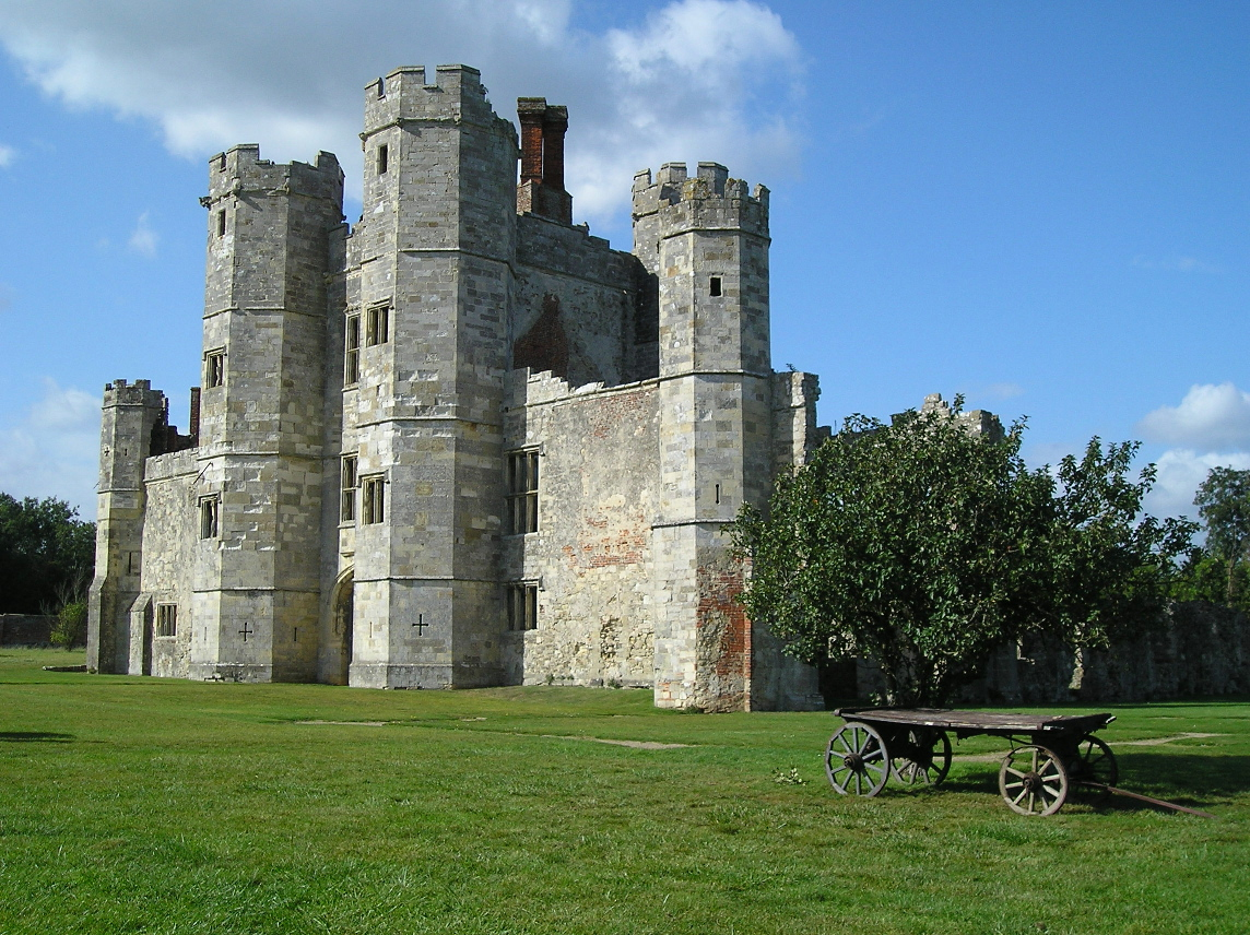 Titchfield Abbey Taken 2005 W N Mansfield